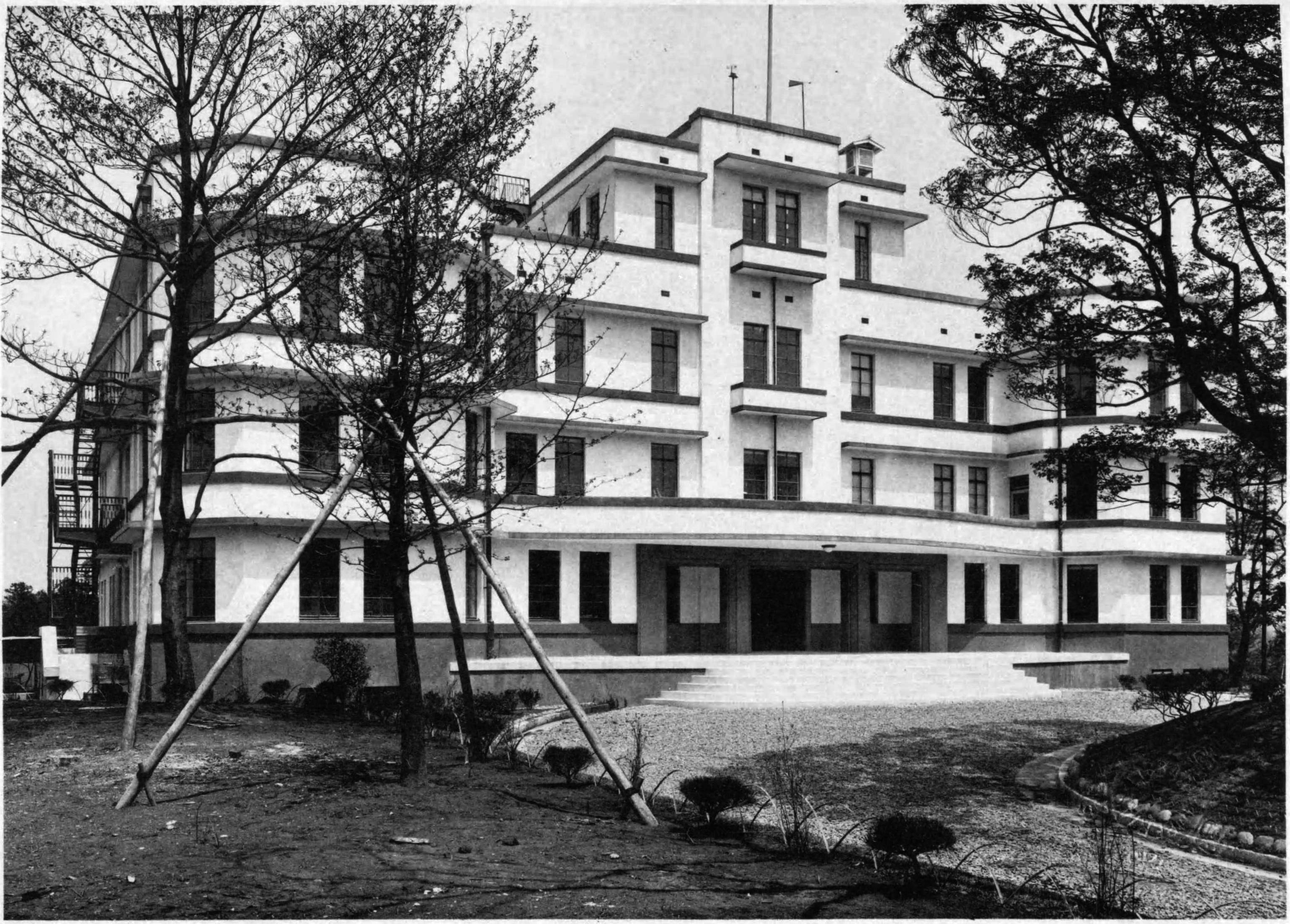 Department of Military Hygiene, Imperial Japanese Army Medical School